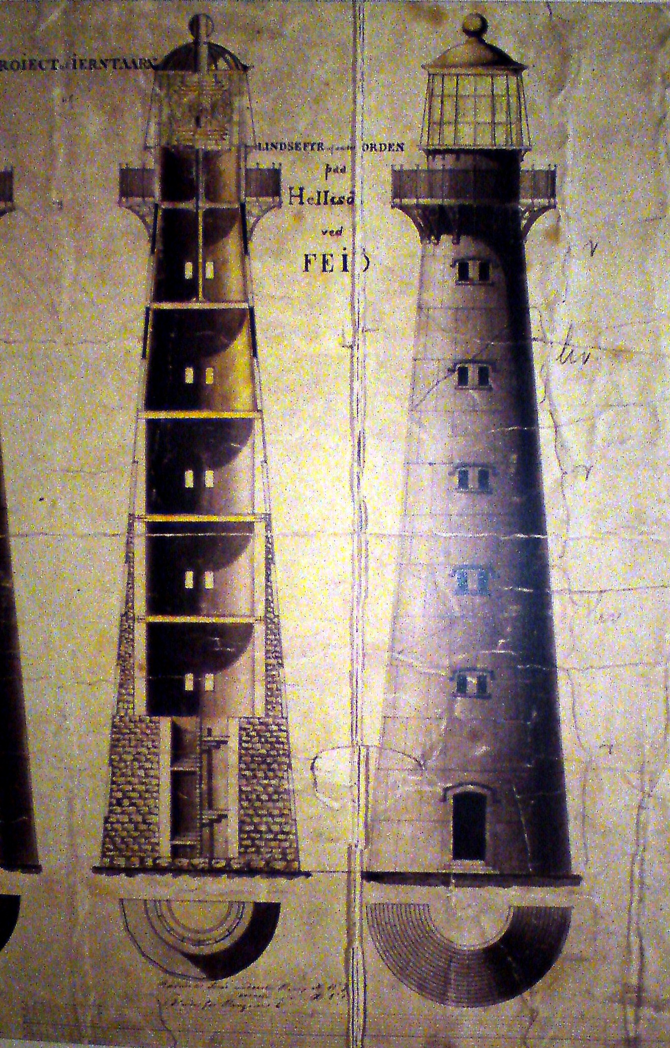 Original drawing of Hellisøy lighthouse from 1852.